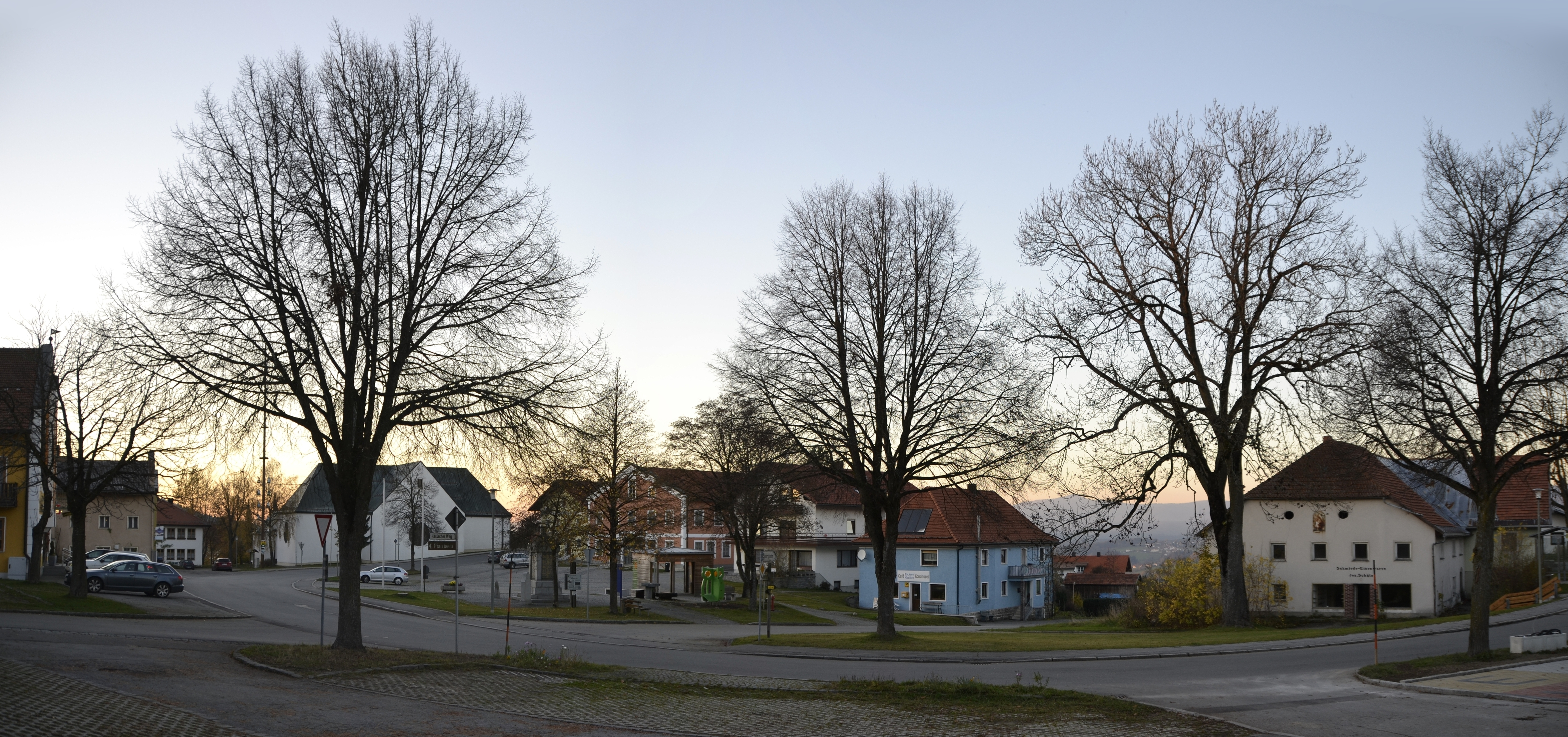 The village square of Hohenau (Lower Bavaria) in the Bavarian Forest.